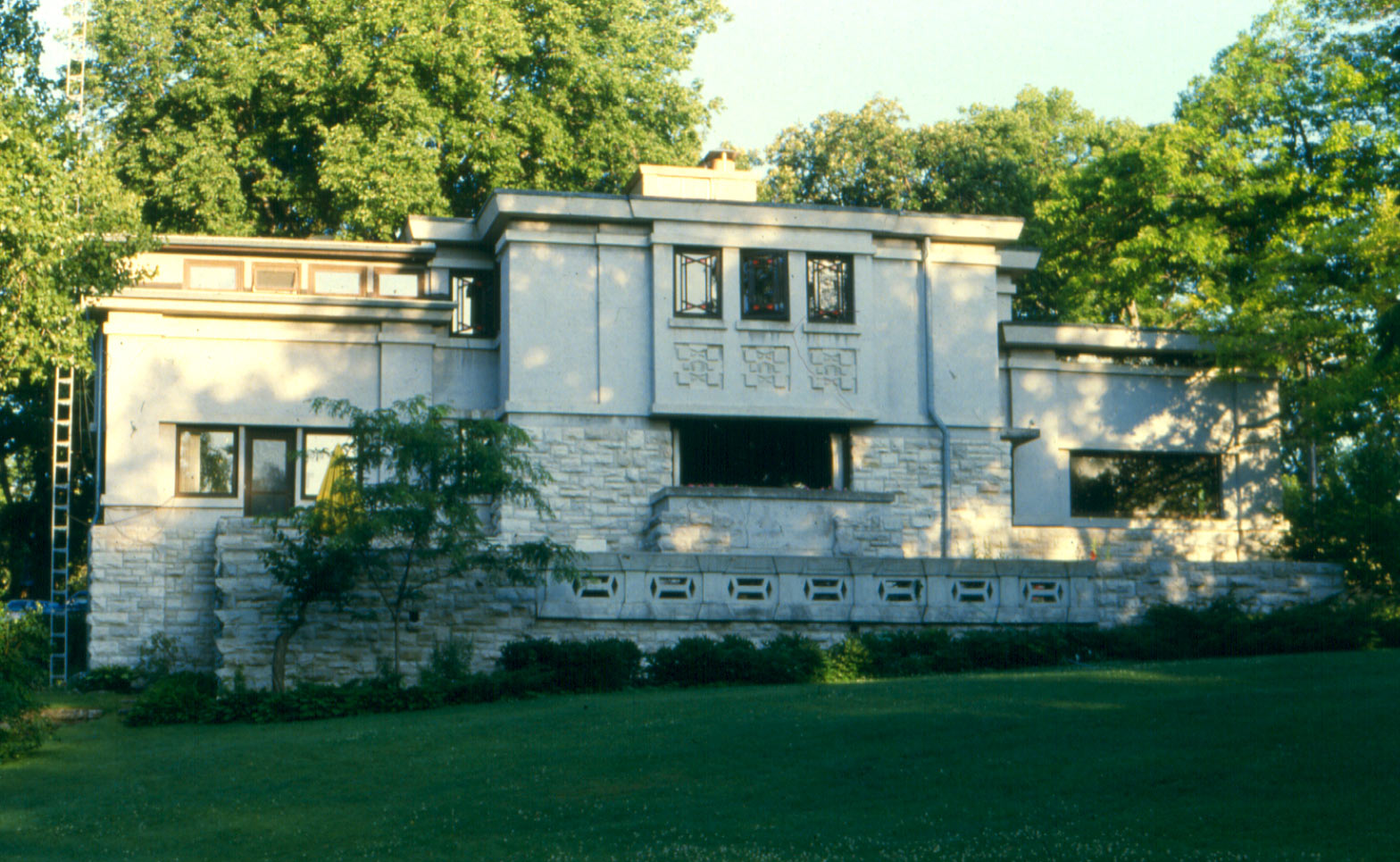 photo by Einar Einarsson Kvaran for Walter Burley Griffin and perhaps Mason City, Iowa